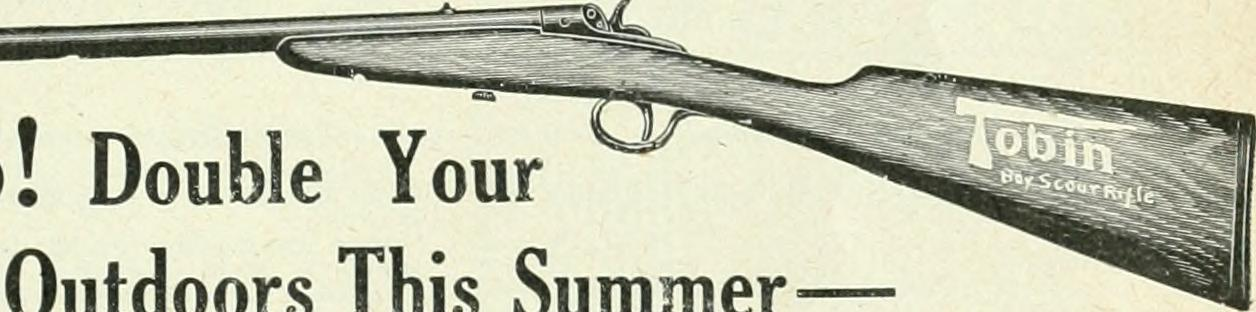 Title: Rod and gun Year: 1898 (1890s) Authors: Canadian Forestry Association Subjects: Fishing Hunting Outdoor life Publisher: Beaconsfield, Que. (etc.) Rod and Gun Pub. Co. (etc.) Text Appearing Before Image: FROSTS KELSO AUTOMATIC REEL S5.00 Including Duty THE REEL YOU WILL EVENTUALLY USE. No trouble about slack line, capacity 300 ft. of No.6 or H line. Light enough for Trout fishing, largeenough for Bass. Do not be misled by low prices on automatic reels.The KELSO costs a little more, worth a great dealmore. For sale by all sporting goods stores orfrom us direct, express paid. H. J. FROST & COMPANY, 90 Chambers Street, New York Text Appearing After Image: BOYS! Double YourPleasure Outdoors This Summer— Get one of these splendid little Rifles—FREE. It isnt going to cost you any money—allwe want is a little of your spare time, and you have surely lots of that after school or onholidays. Just think of having a real accurate-shooting .22 calibre Rifle of your own.And heres vour chance. $5.00 BOY SCOUT RIFLE—FREE This Rifle is .22 calibre, shoots .22 short,long or long rifle cartridges. Guaranteed foreither black or smokeless powder. Barrel22 in. long. Weight 3 M pounds. Hammerbreech block, trigger, extractor, and threesprings of tempered steel, are all the work-ing parts. Barrel and action detachablefrom stock for convenience in carrying. Allyou have to do is to send us Five New Yearly SubscriptionsRod and Gun in Canada To at $L50 per year, and we will ship this handsomelittle Rifle, all charges prepaid to any address inCanada or U.S.A. Ask your dad for the names ofsome of his sportsman friends. Call around and seethem. Get them in